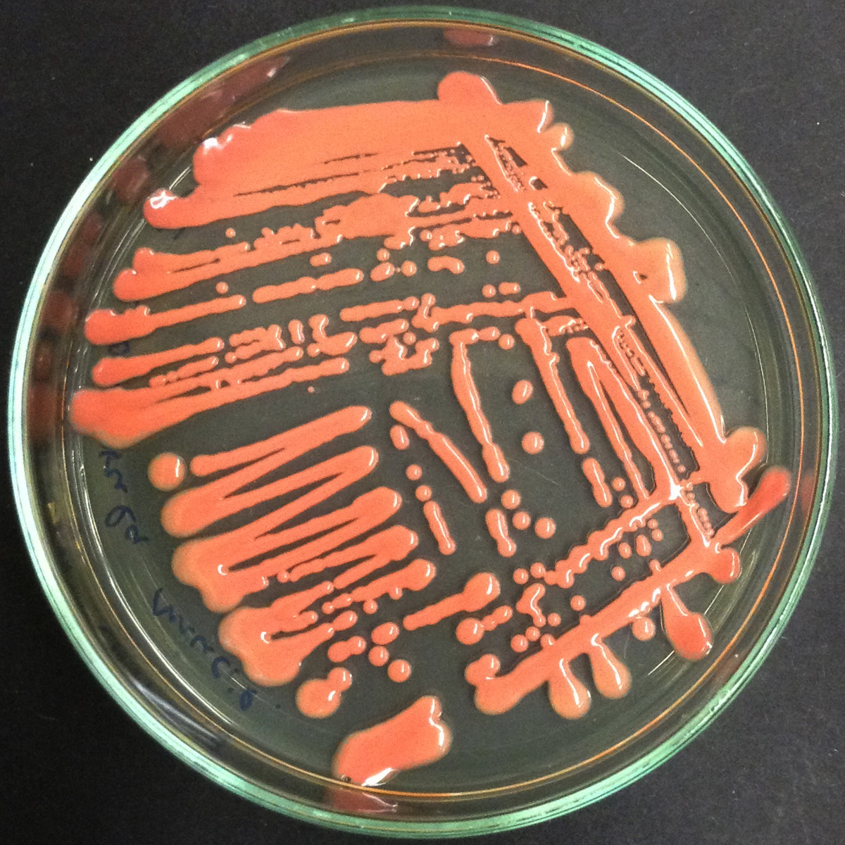 Rhodotorula mucilaginosa colonies on yeast extract glucose chloramphenicol agar (YGC).